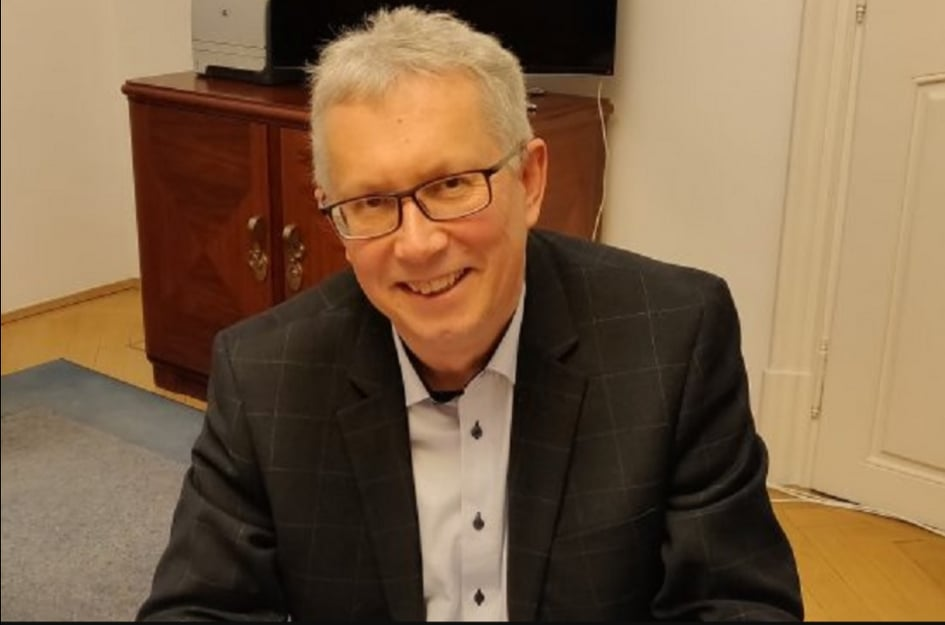 Milan Pour - ANO 2011